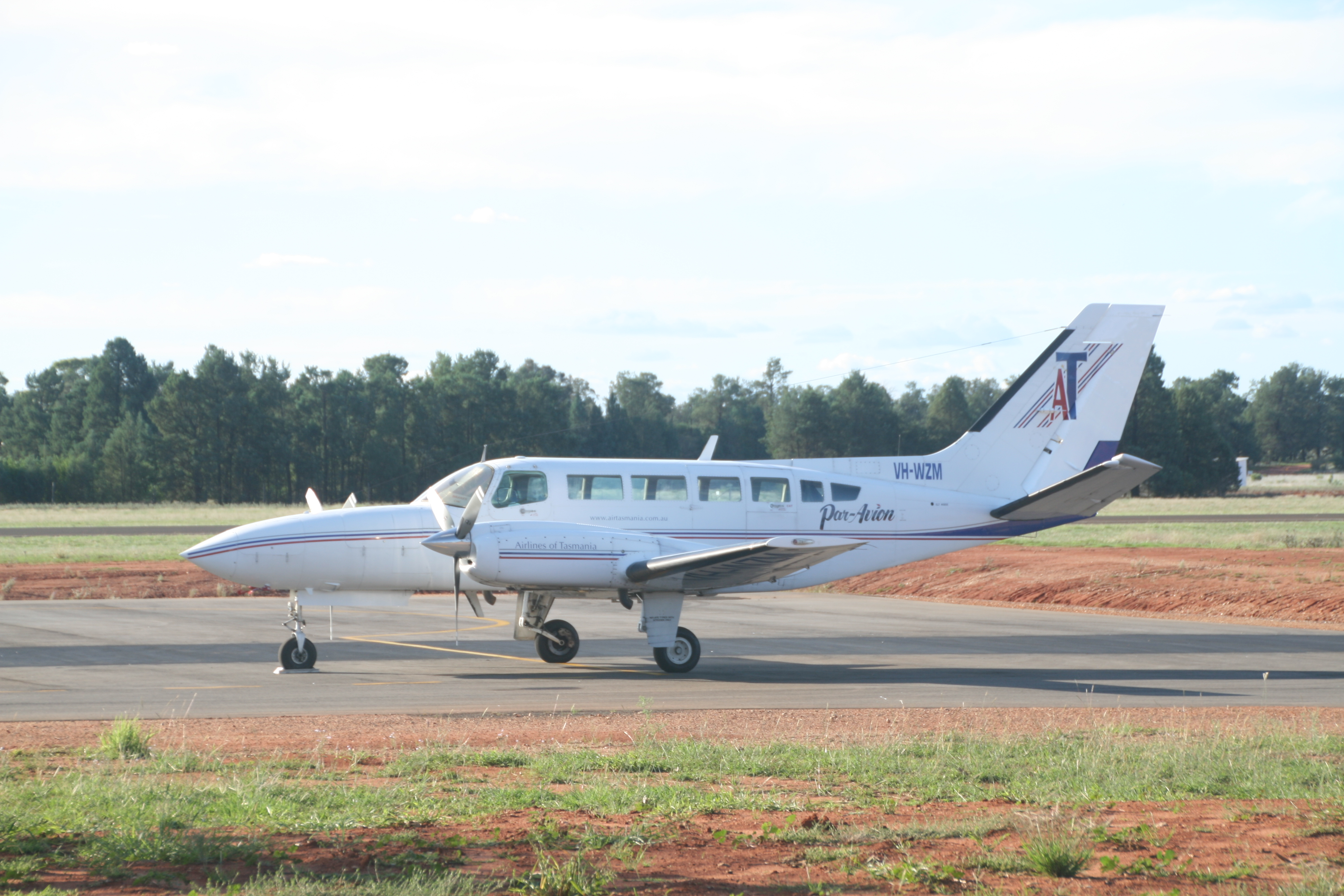 An Airlines of Tasmania Cessna 404 Titan parked at Griffith Airport in rural New South Wales, Australia. Airlines of Tasmania's sister company Par-Avion operates the aircraft on scheduled flights between Griffith and Melbourne's Essendon Airport. Digital image of VH-WZM taken by YSSYguy on 12 April 2014 and upoaded for use in the Griffith Airport article. YSSYguy (talk) 02:21, 15 April 2014 (UTC)